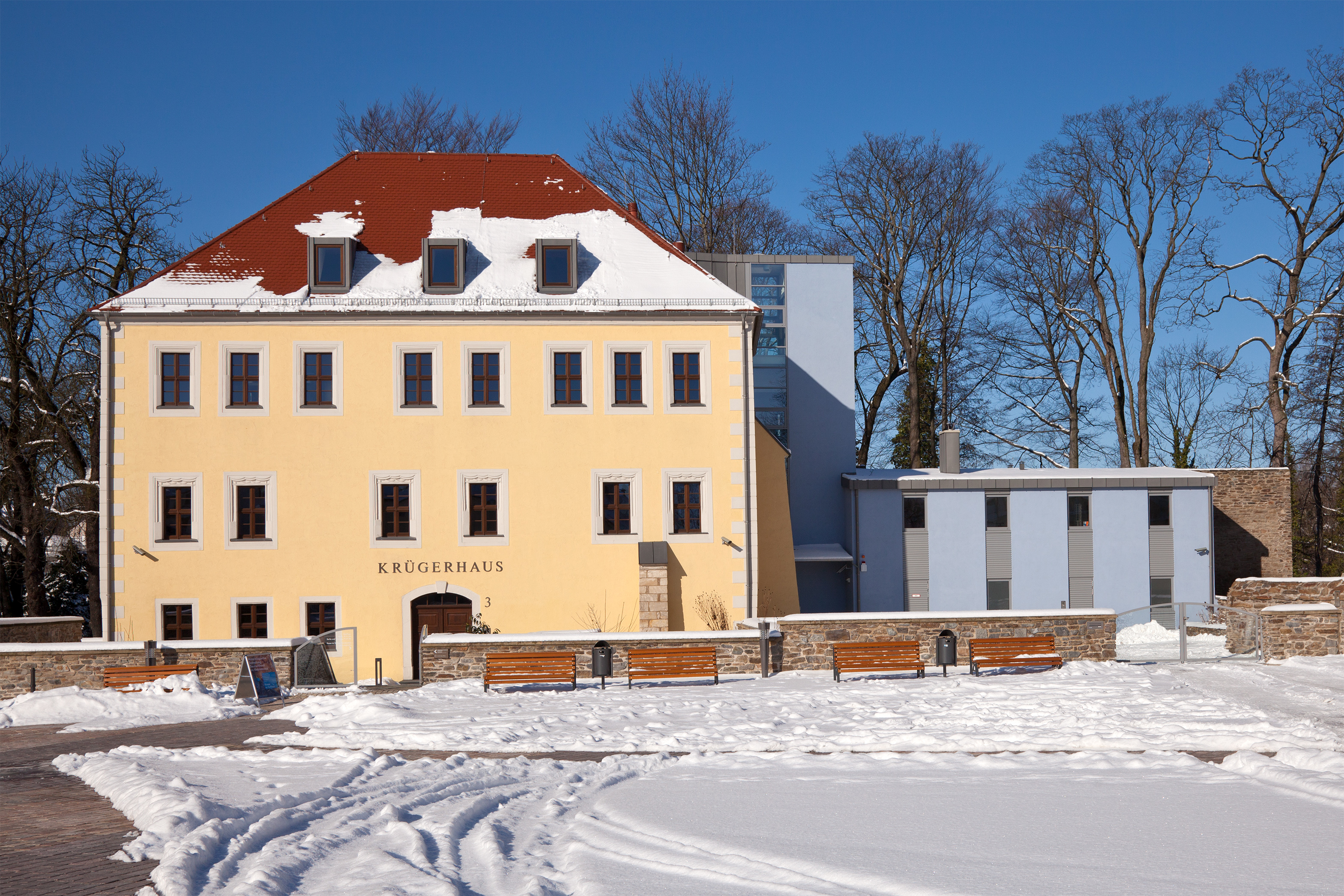 Freiberg, Krüger-Haus